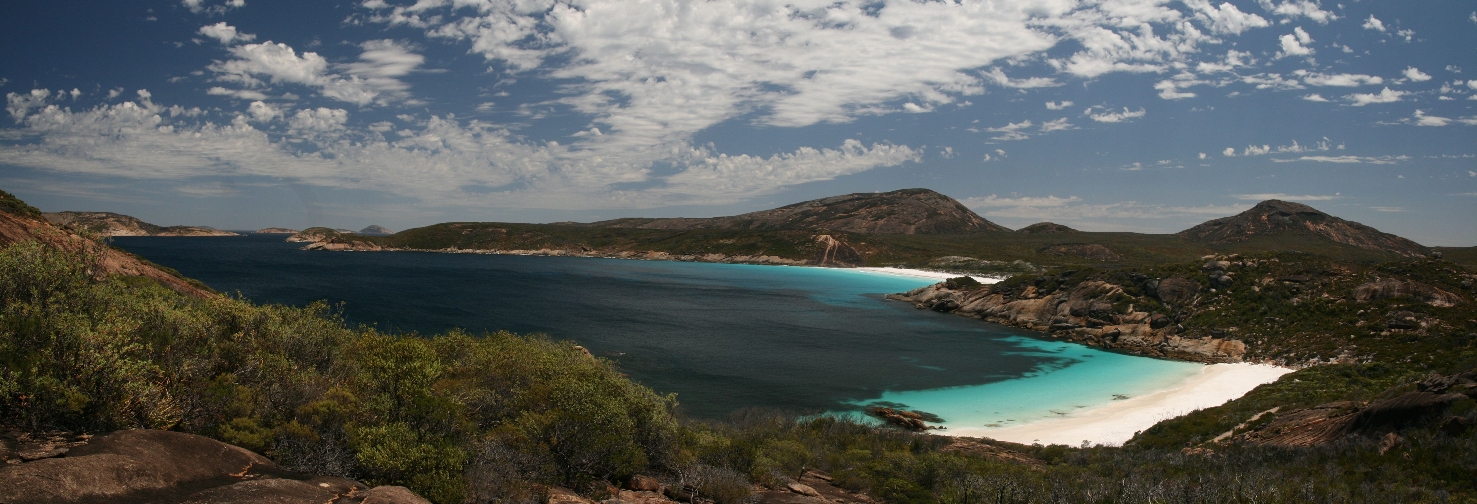 Panorama of a beach in the Cape le Grand Nationalpark, WA, Australia